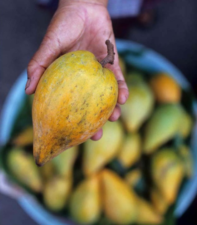 Canistel Tagalog: Tiyesa